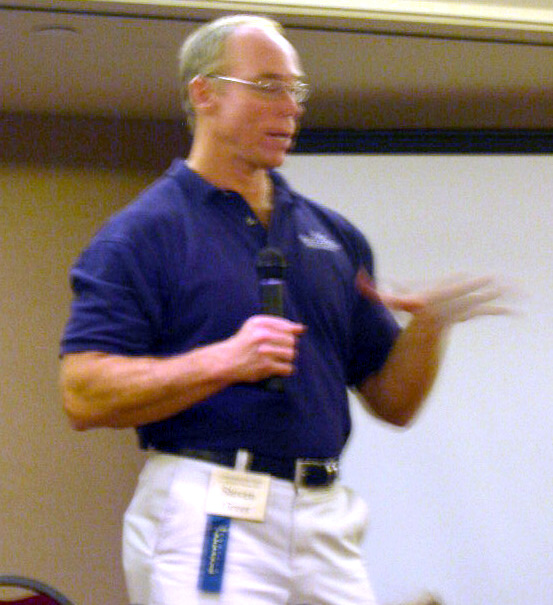 Dr. Steven M. Greer (Disclosure Project / CSETI / SEAS Power) @ the Conscious Life Expo